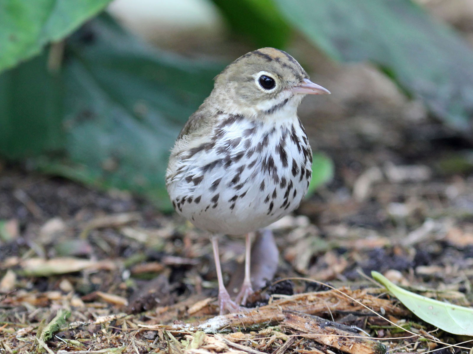 Ovenbird (Seiurus aurocapilla) - Butterfly World, Florida